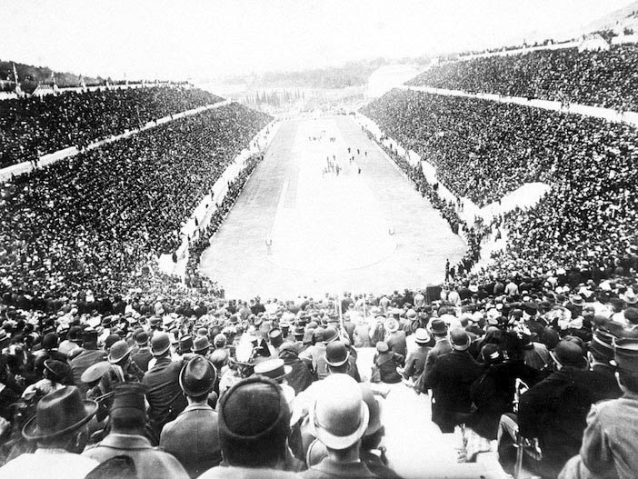 The end of the marathon race in the Panathenaic Stadium, where Spyridon Louis finished as winner.